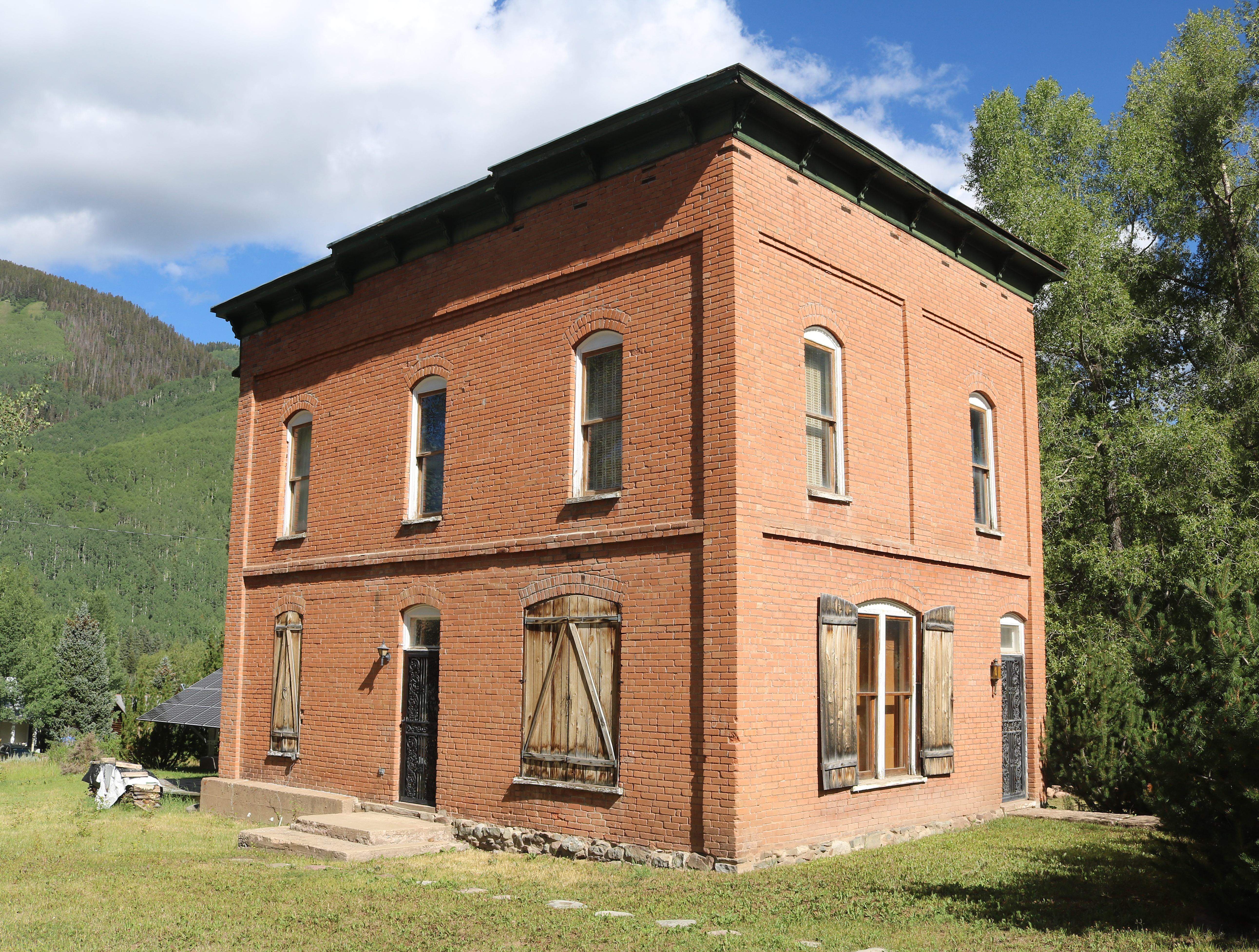 The William Kauffman House, located on Silver Street in Rico, Colorado. The property is listed on the National Register of Historic Places. In the picture, the right side is the side facing the street.